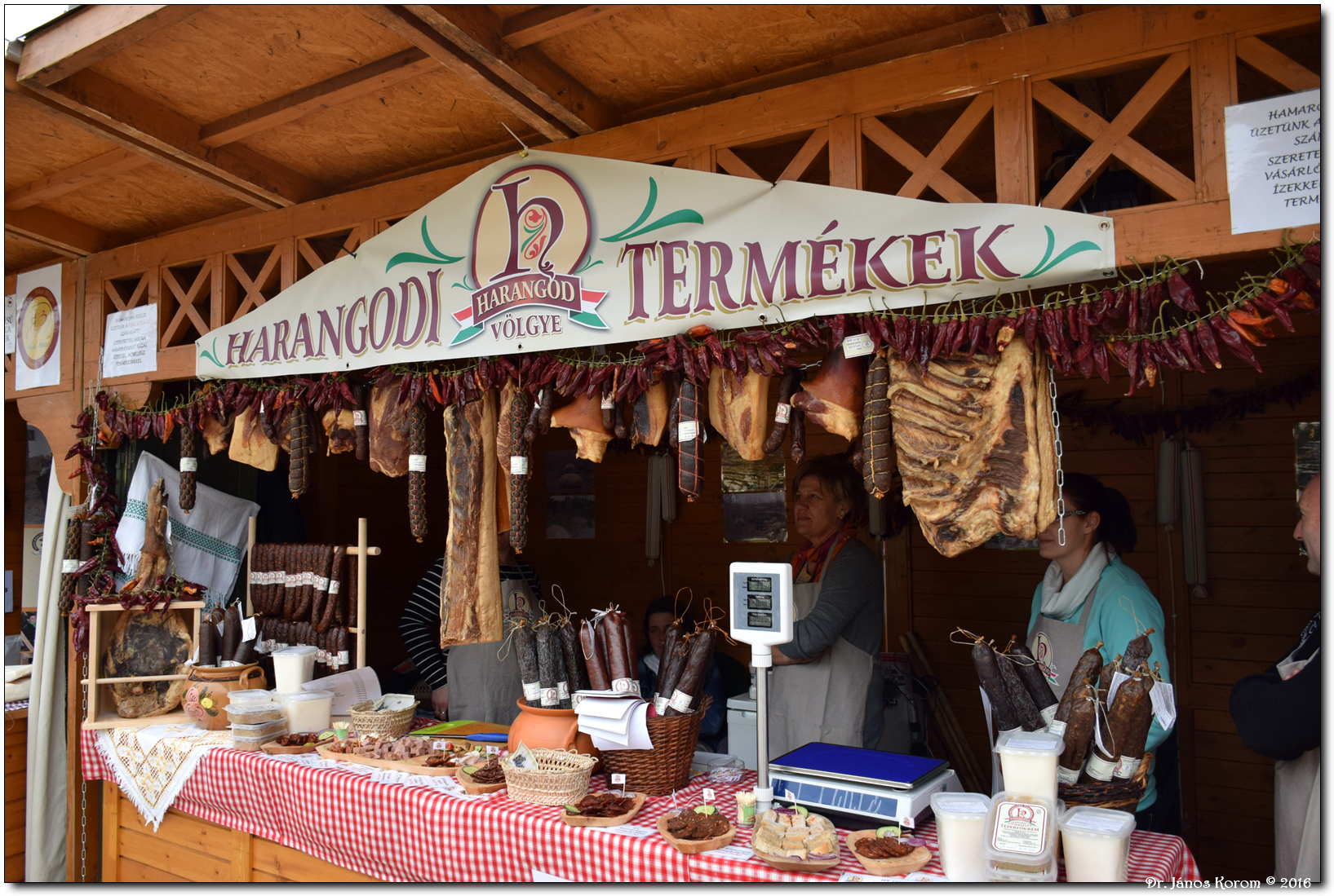 Mangalica Fesztivál Debrecen, 2016